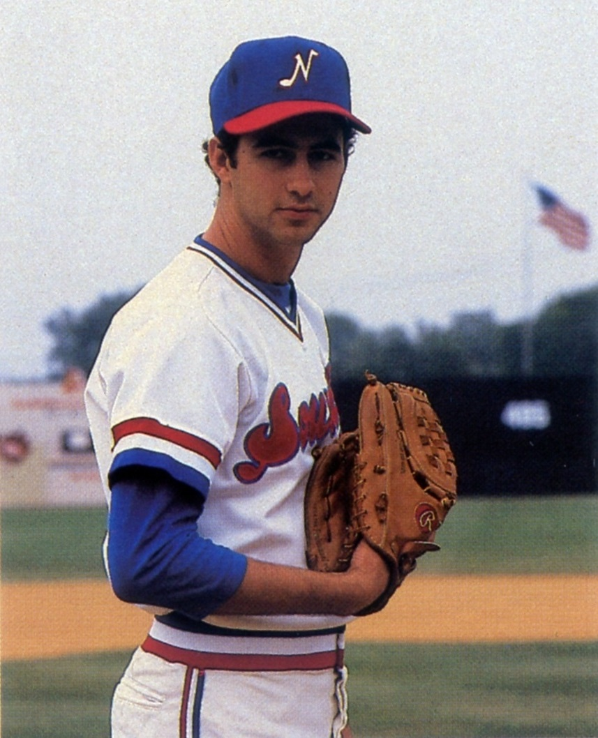 Pitcher Ray Fontenot of the 1982 Nashville Sounds Minor League Baseball team of the Southern League